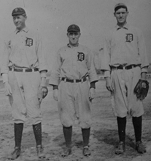 Photograph of Bun Troy, Donie Bush, and Fred House (baseball) taken on March 27, 1913